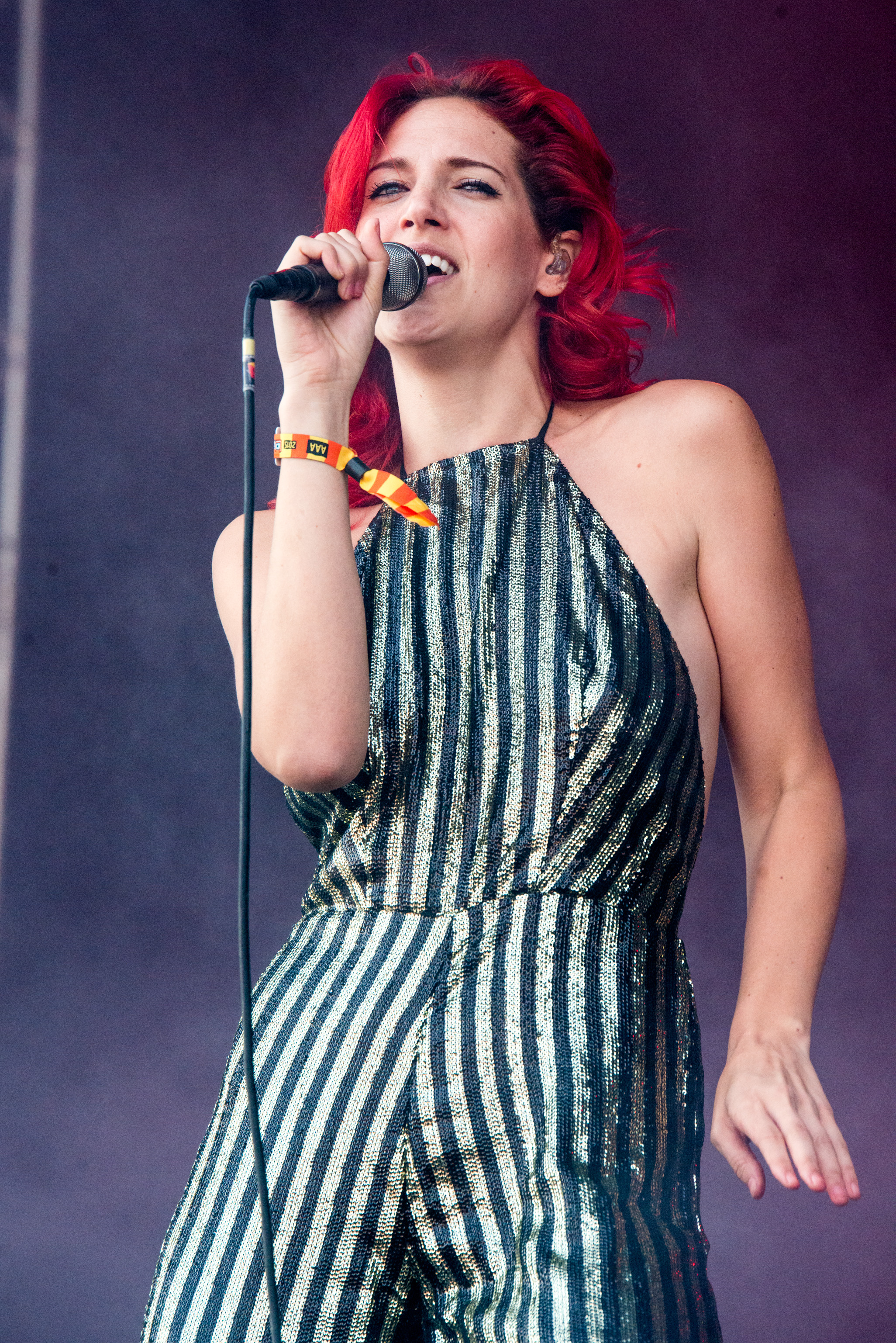 MsMr @ Lollapalooza 2015